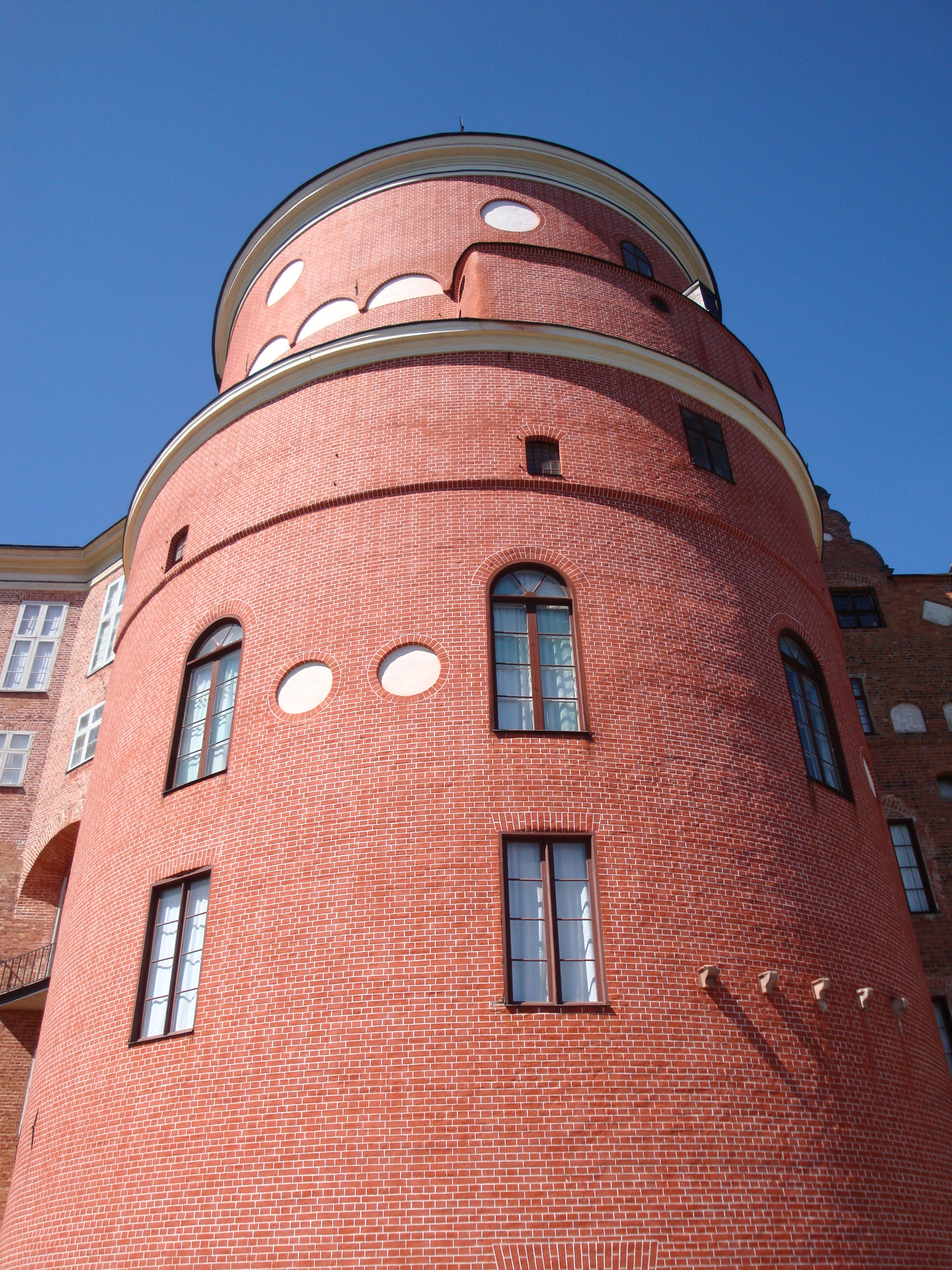 Tower of Gripsholm Castle with painted structure